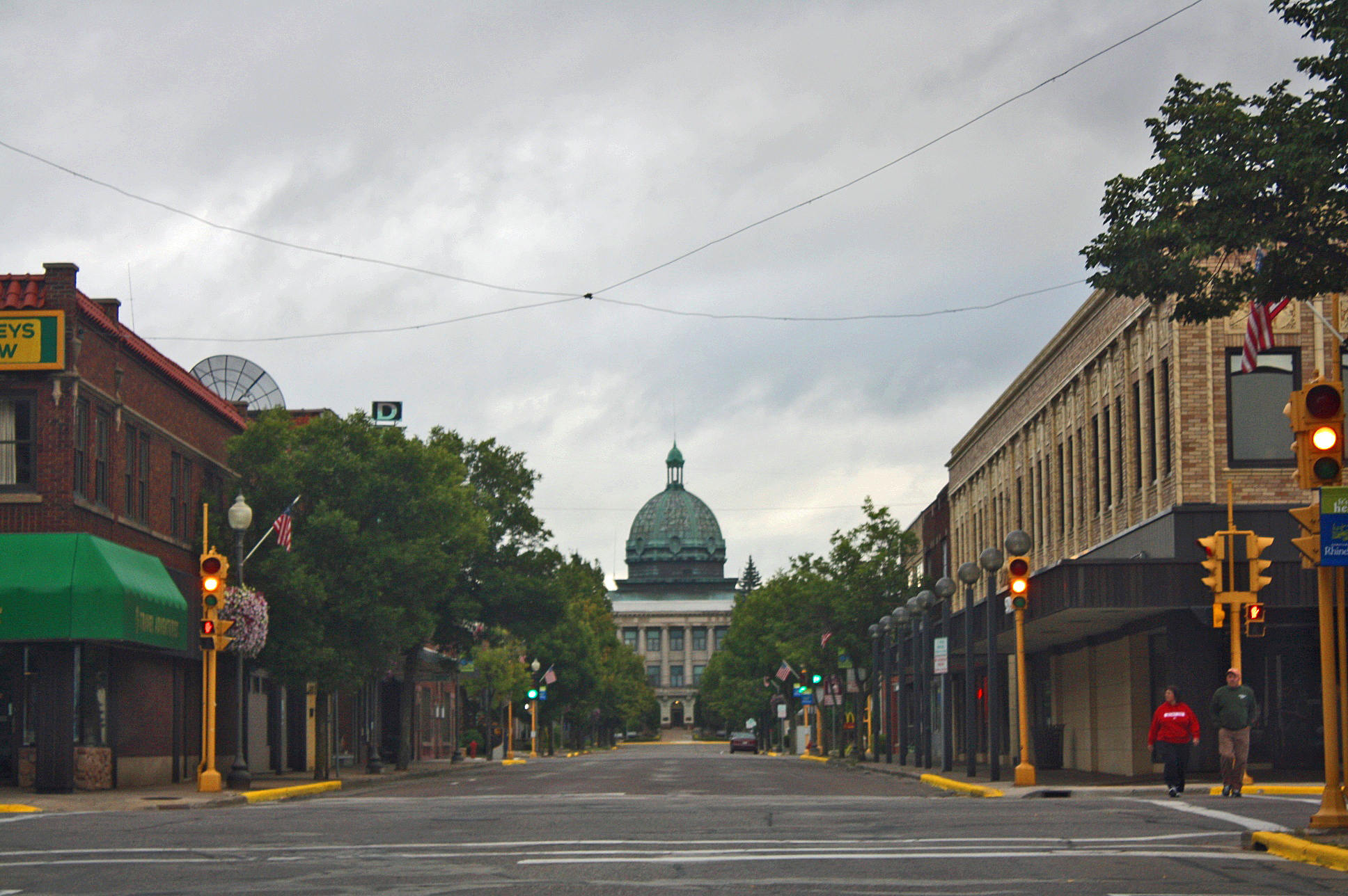 Looking east at downtown Rhinelander, Wisconsin on U.S. Route 8.